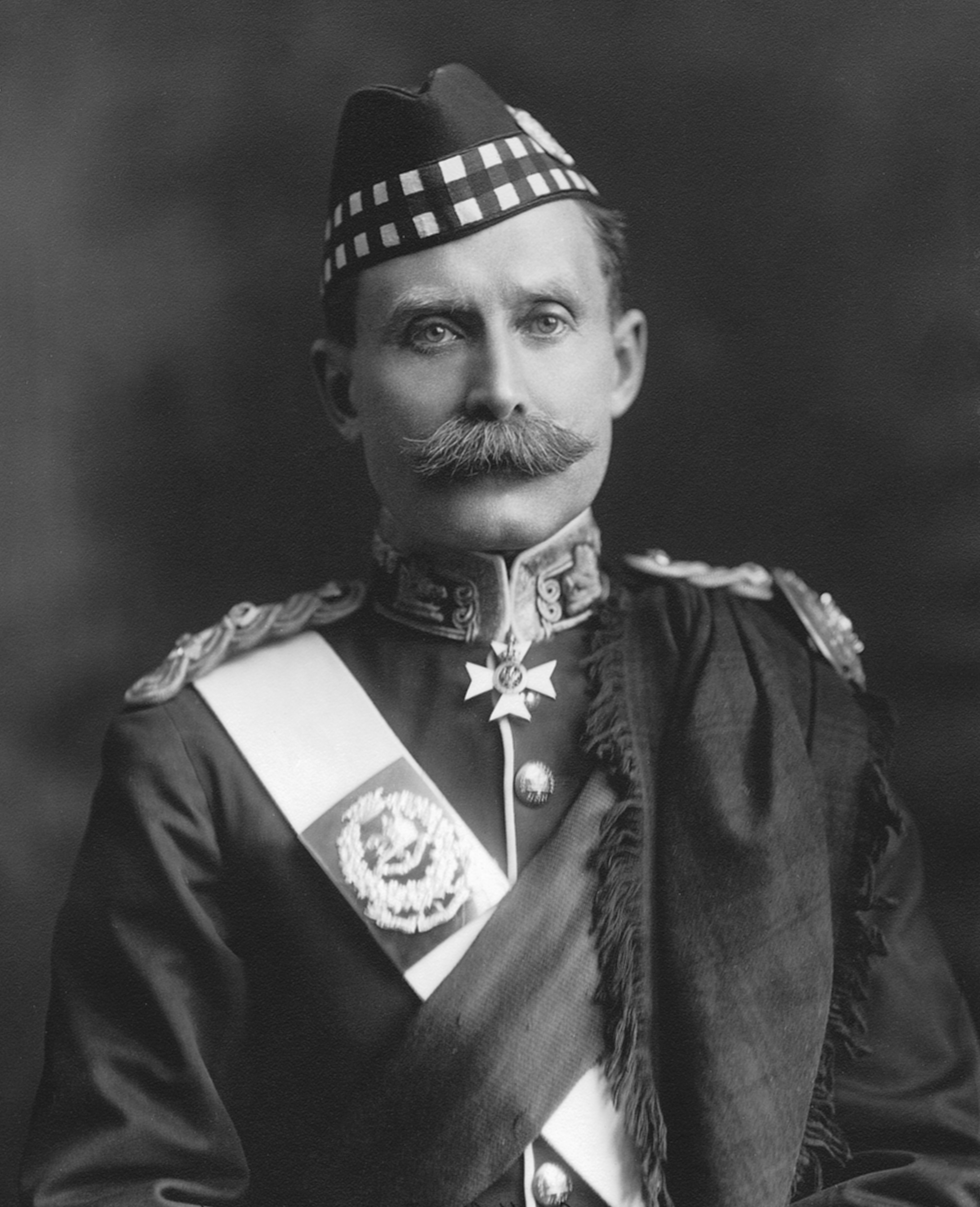 Lt.-Colonel Sir Montagu Allan of the The Black Watch (Royal Highland Regiment) of Canada, 1912 (Silver salts on glass - Gelatin dry plate process - 25 x 20 cm)